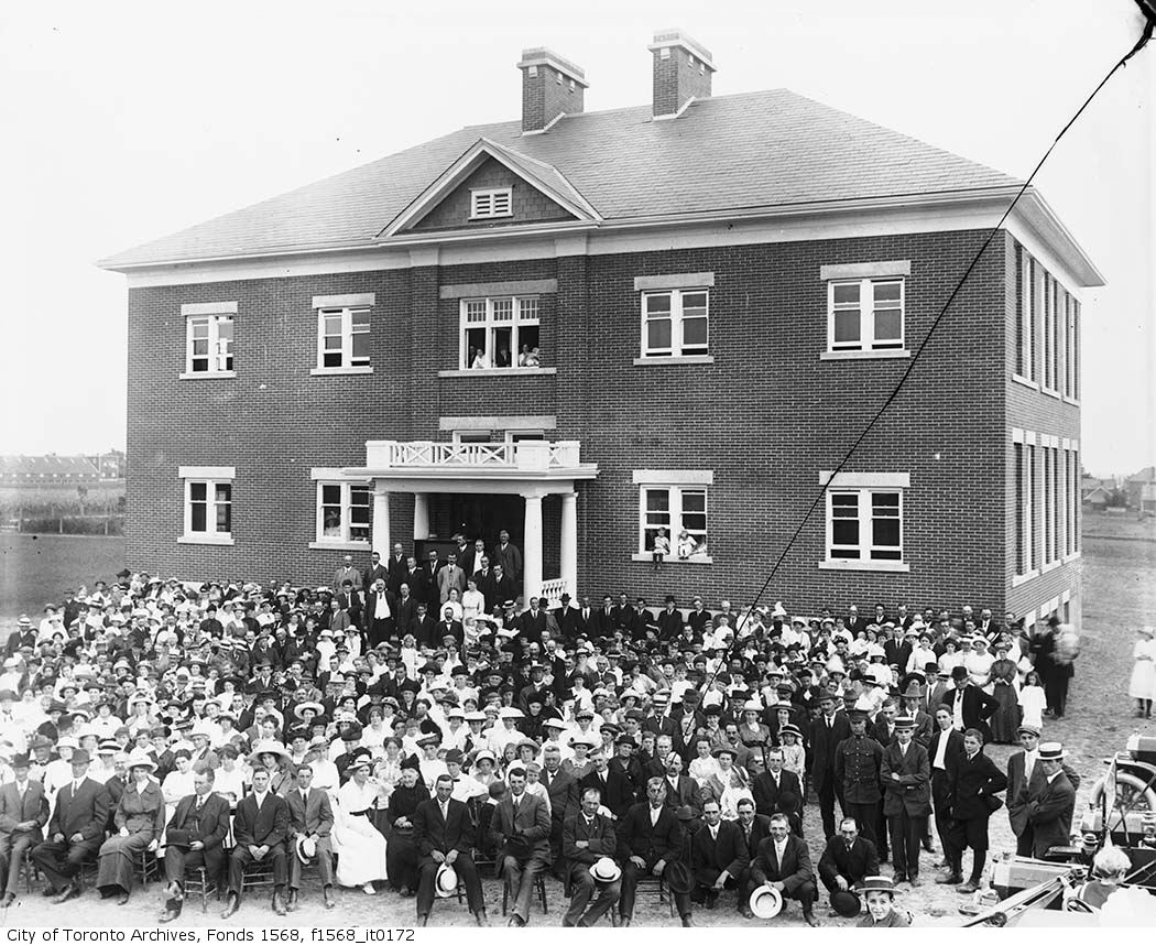 Agincourt Public School opening ceremonies, Agincourt, Scarborough Township